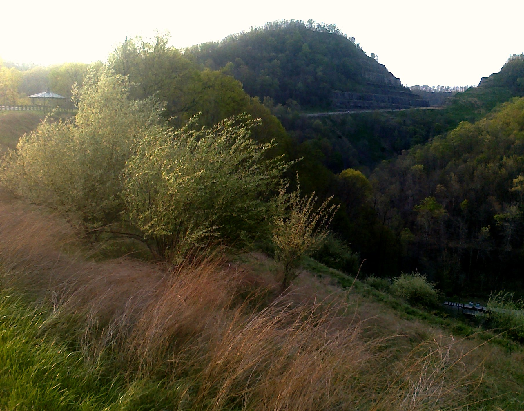 Hills near Logan, West Virginia